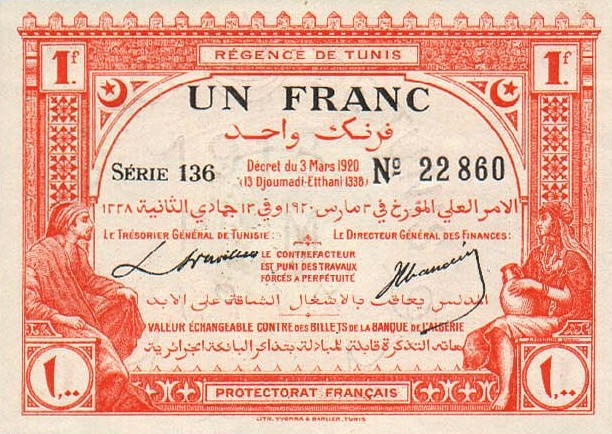 1 franc banknote issued in 3 mars 1920, Tunisia.